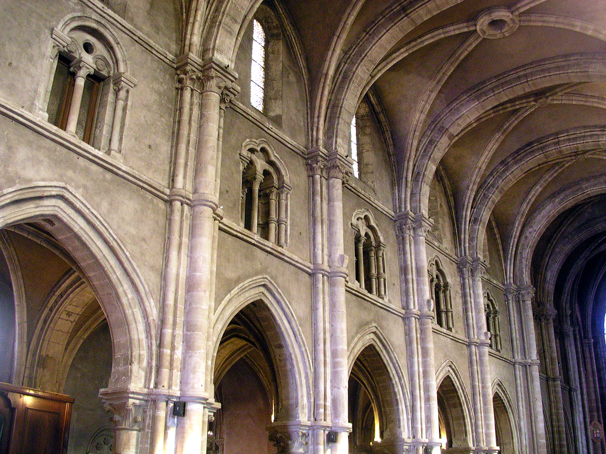 Saint Maurice basilica Epinal